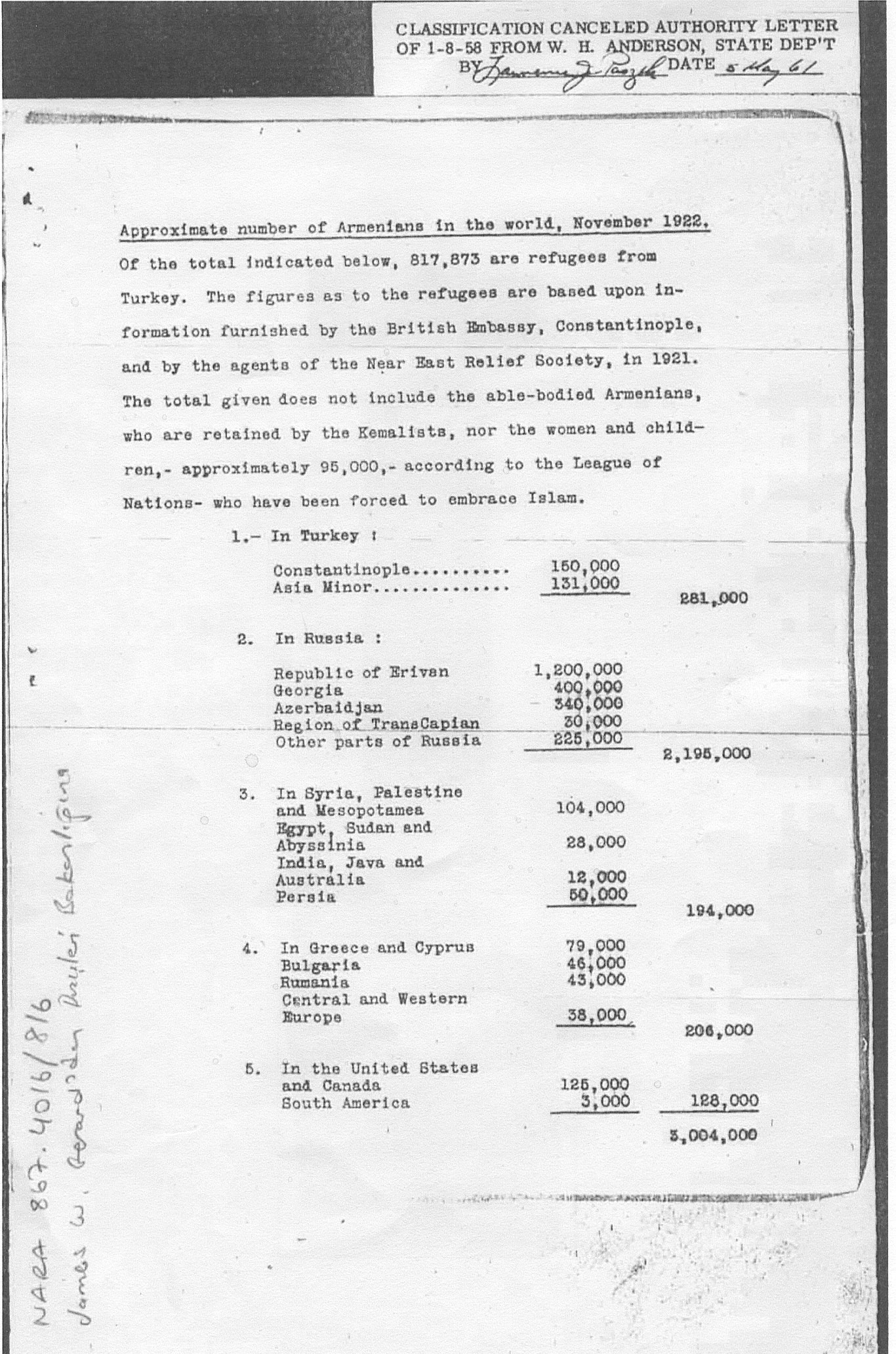 The document summarize the Armenian population in 1921.